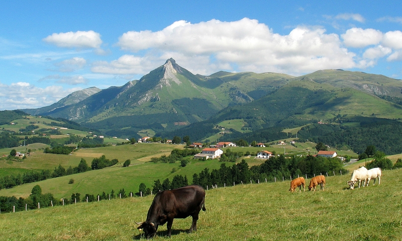 View of Txindoki mountain from Lazkaomendi (Lazkao)